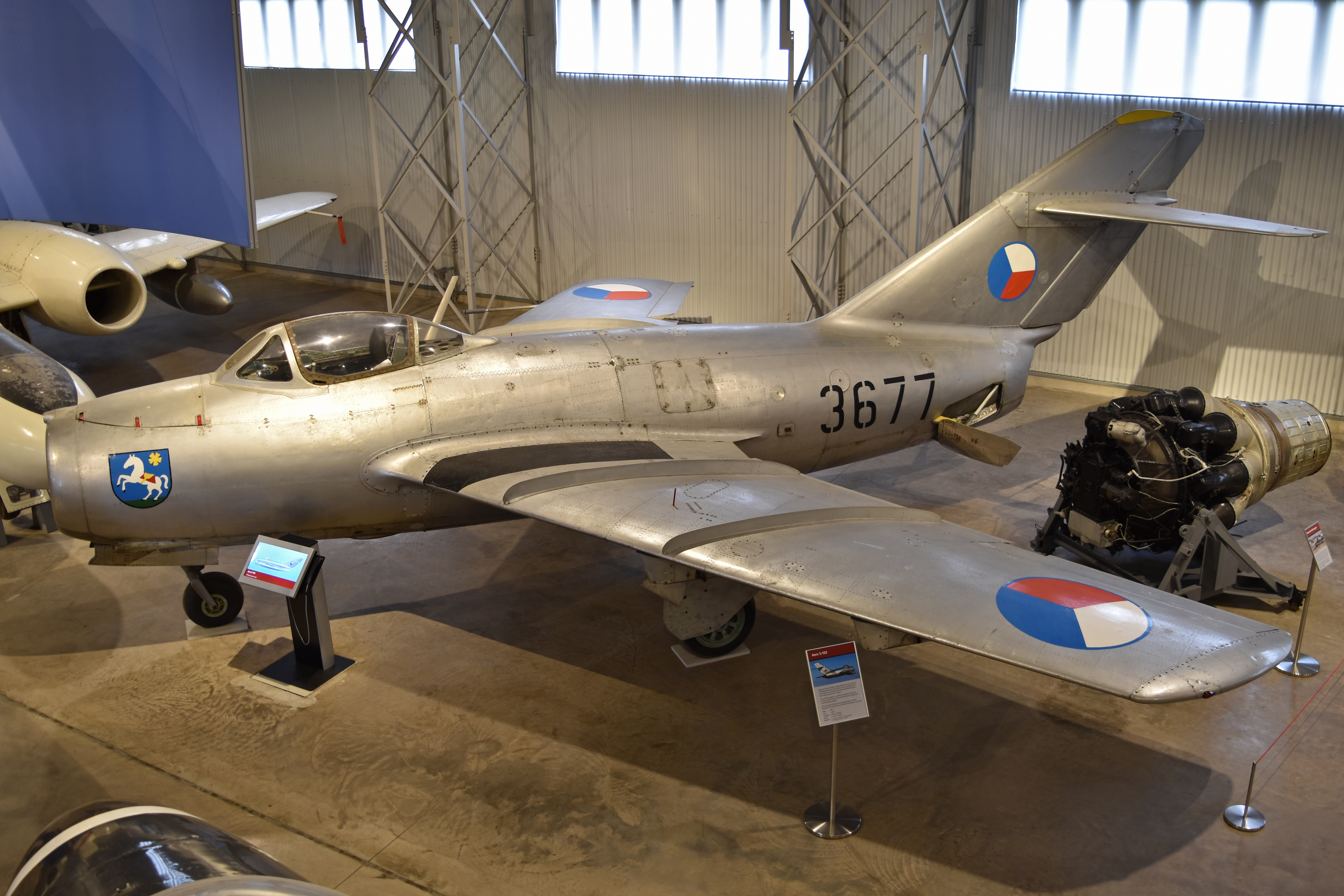 c/n 613677. The S-103 was a MiG-15bis built under license by Aero Vodochody in Czechoslovakia. The type was the country’s main jet fighter between 1954 and 1958. According to the museum website, this example was flown by the Czechoslovakian 11th Air Regiment. The crest of the city of Ostrava is painted on the nose. On display in the Military Aviation Hangar at the National Museum of Flight (part of National Museums Scotland). East Fortune Airfield, East Lothian, Scotland. 13th September 2017